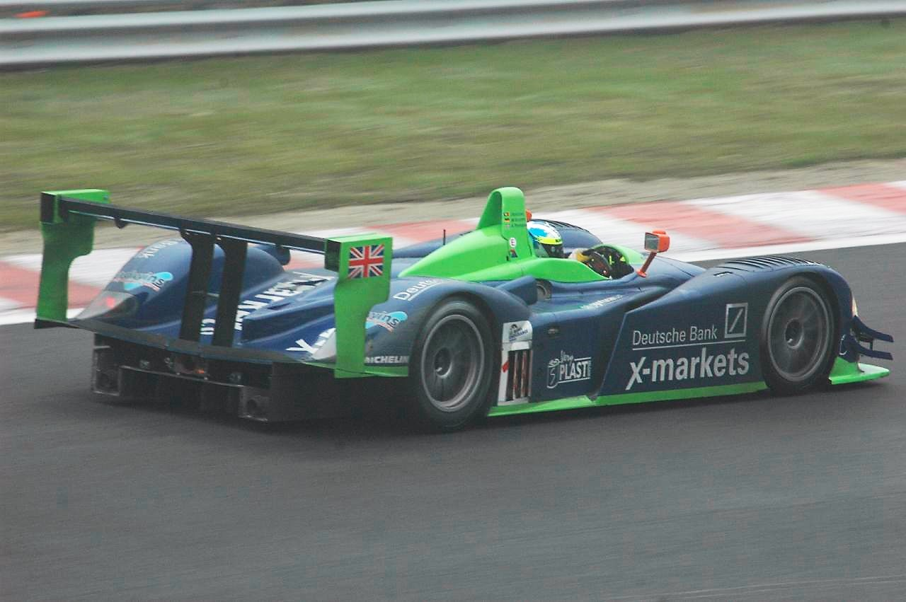 Rollcentre Racing's Dallara-Nissan at the 2005 1000km of Spa